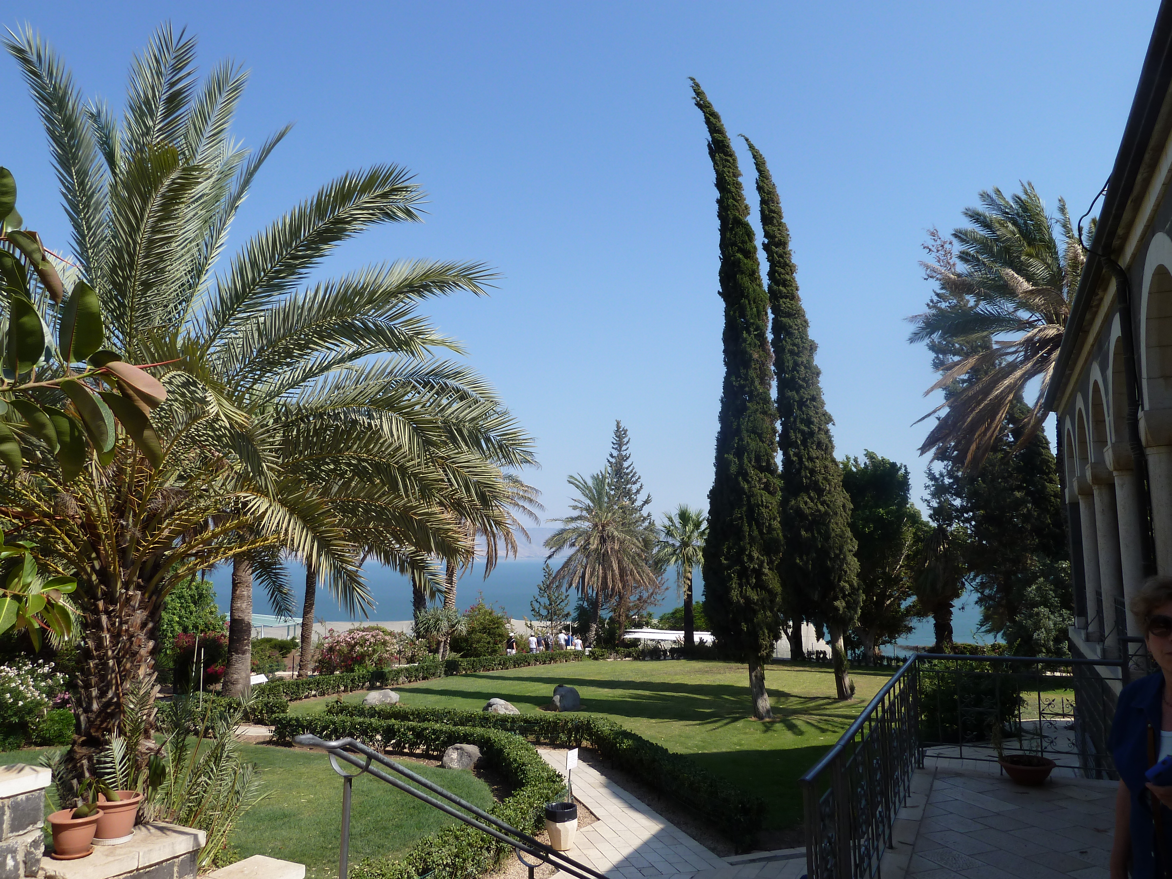 View from the Mount of Beatitudes